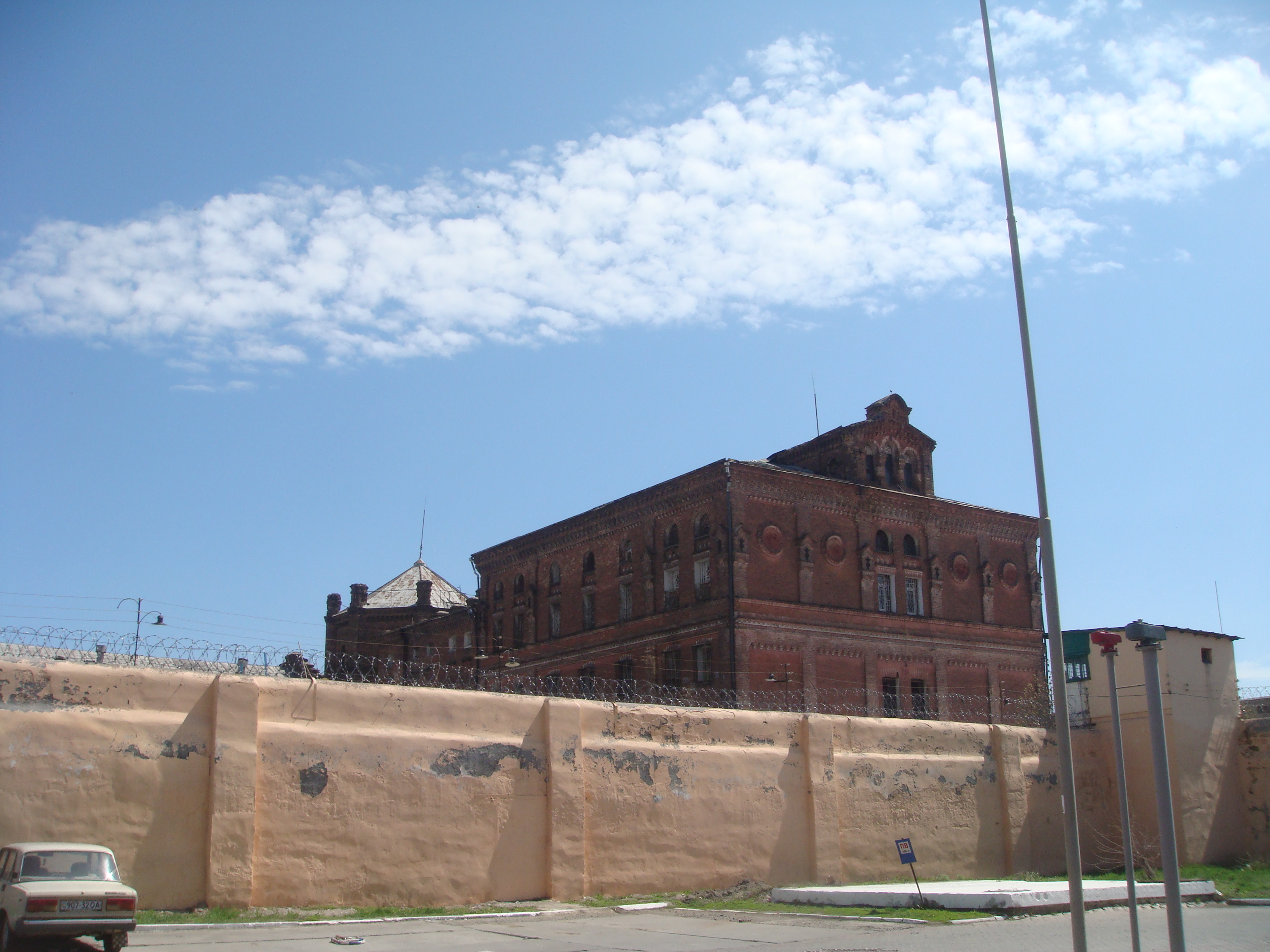 Constructions of Penology system of Ukraine. Odessa, Lyustdorfskaya Doroga street